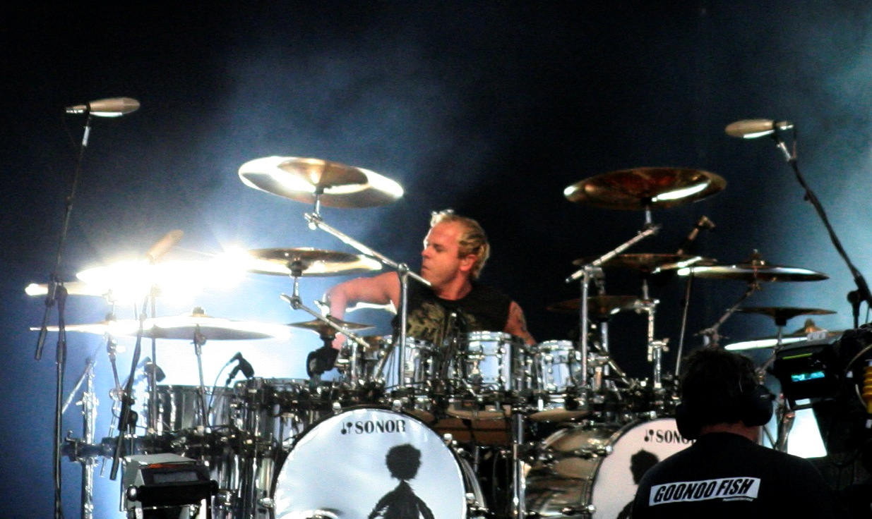 Depeche Mode - O2 Wireless Festival